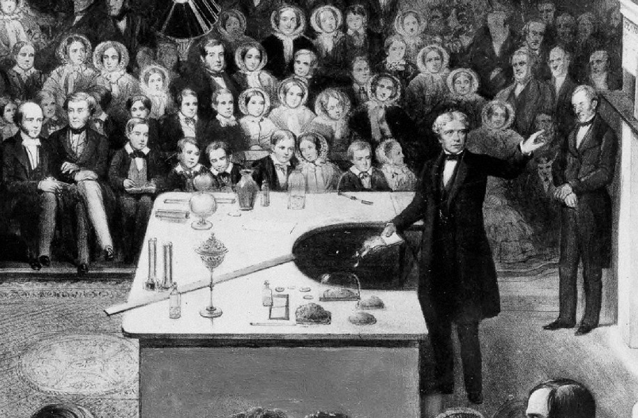 Detail of a lithograph of Michael Faraday delivering a Christmas lecture at the Royal Institution